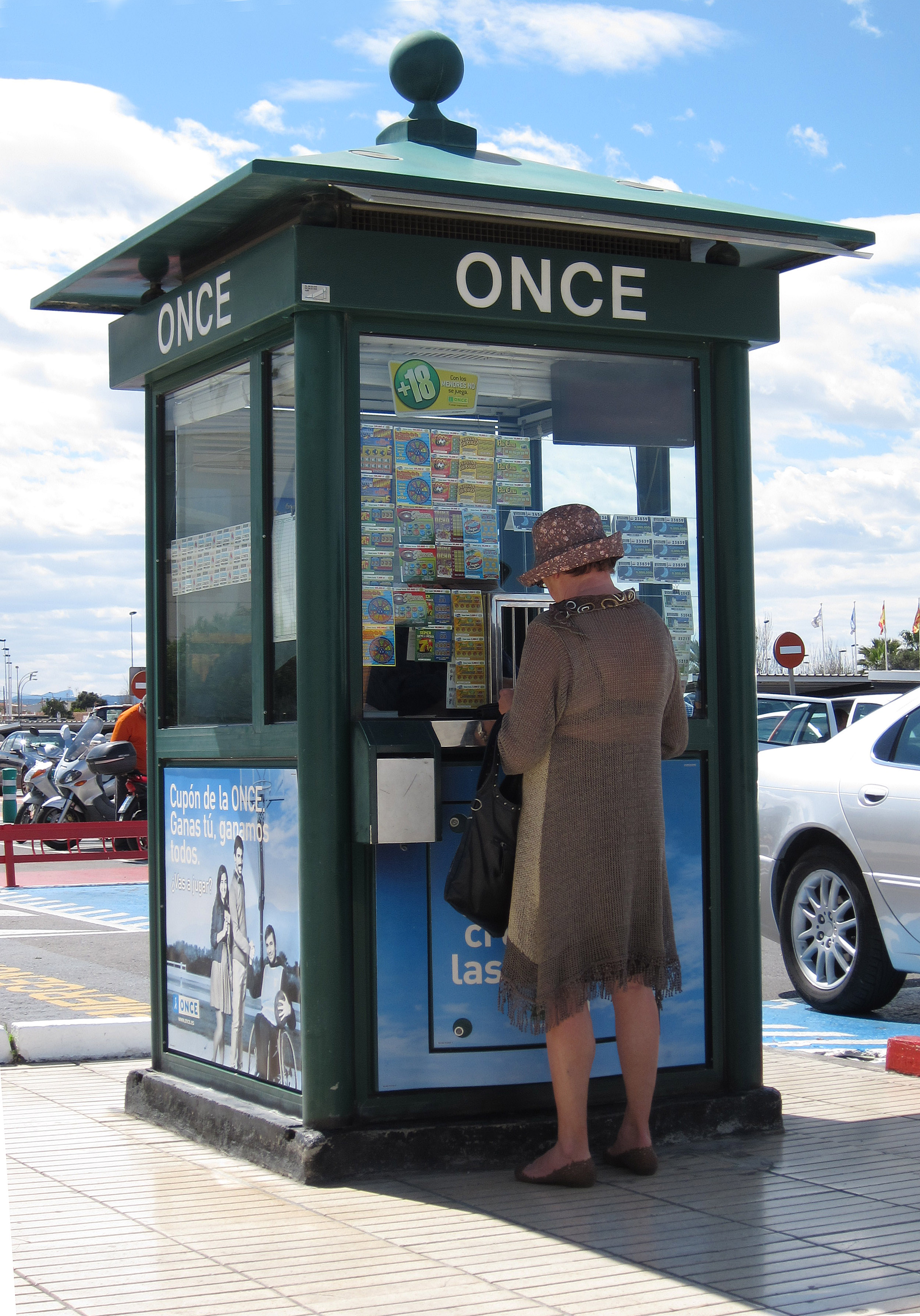 Here in Spain, lotteries are even more popular than they are in England. You find lottery ticket shops in every town, sellers roam the streets and bars and there are ONCE kiosks placed in strategic places. This lady is buying her ticket from an ONCE kiosk. She obviously dreams of winning and depending upon which lottery she has entered that could be up to 9,000,000 Euros. Alternatively, she could be buying one of those scratch cards you can see to the left of the window. What this lady is also doing is contributing to a worthwhile charity becauseONCE is a nonprofit corporation with a mission to improve the quality of life for blind and visually impaired people in Spain.